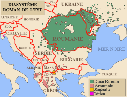 Map of the East romange langages (french, with the word: Greece)